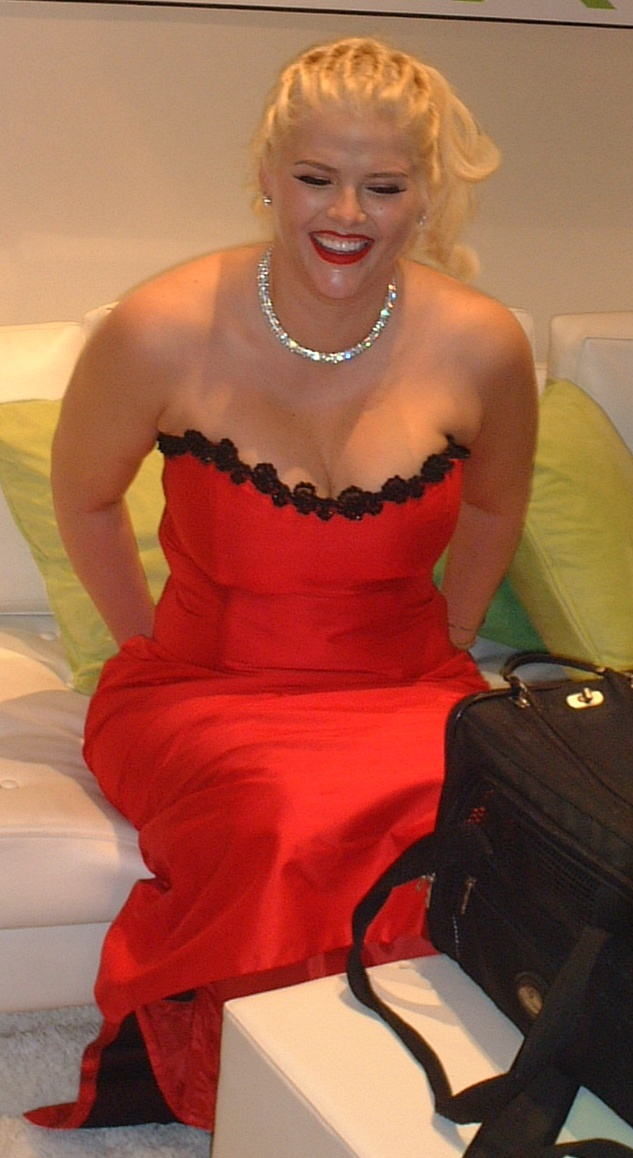 Anna Nicole Smith at the 2003 E3